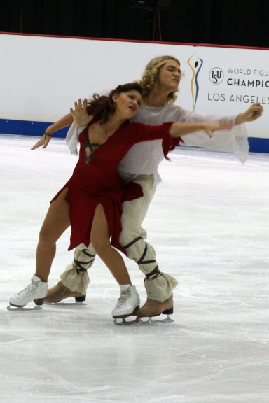 Alexandra Zaretski & Roman Zaretski at the 2009 World Figure Skating Championships.